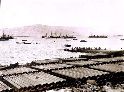 Pipes about to be used to build a water supply network for Reykjavík